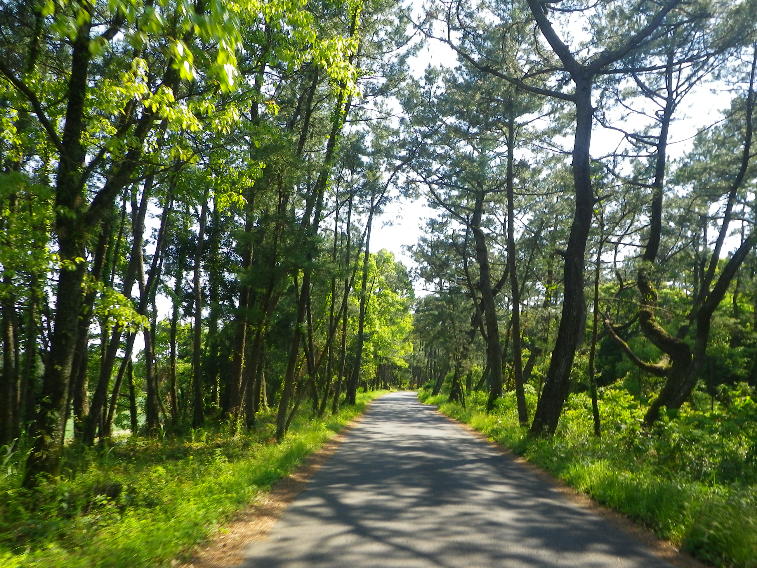 Irino matsubara forest